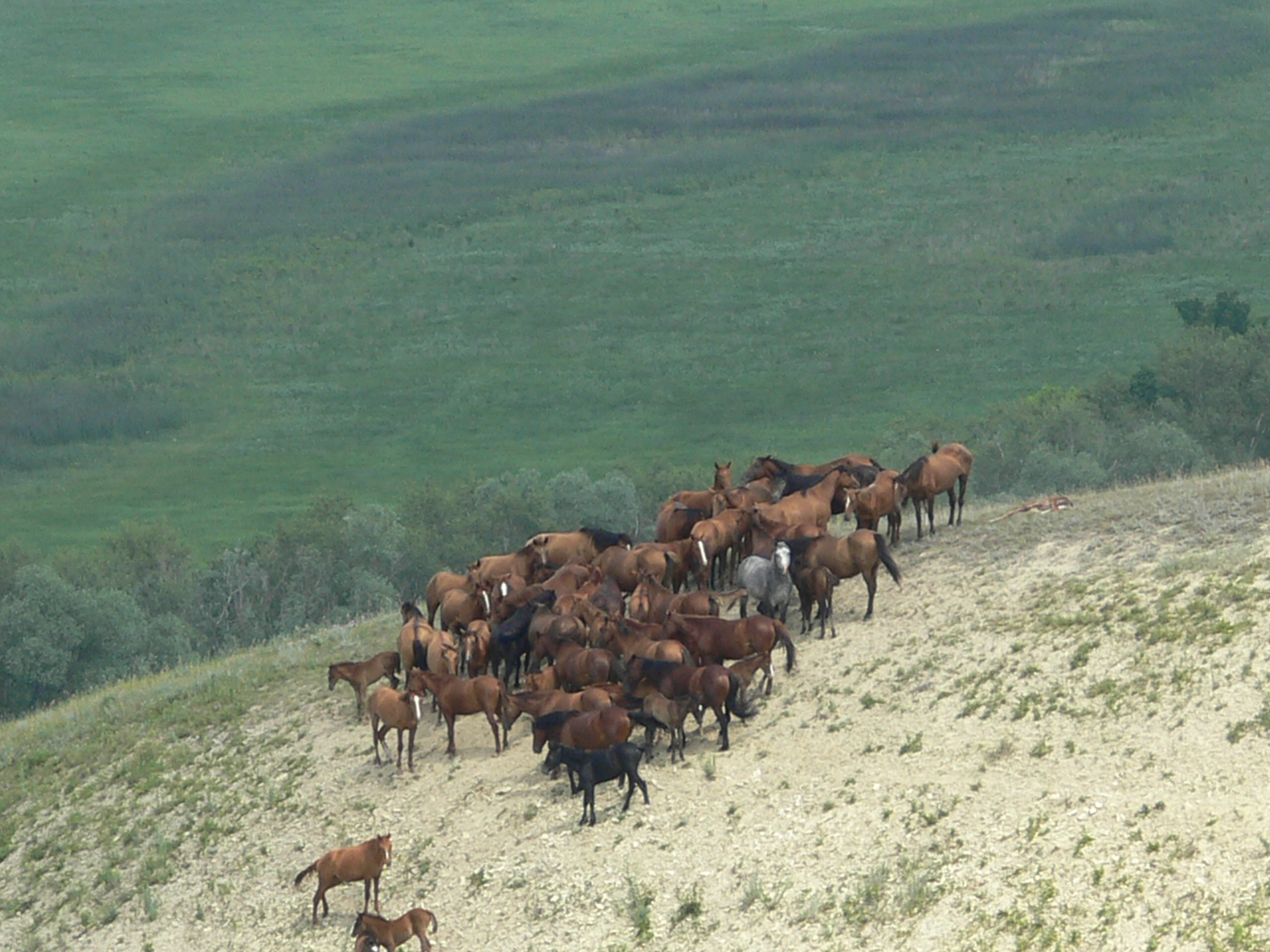 Kosha Mountain. Nature Park Nizhnehopersk. Volgograd Region.